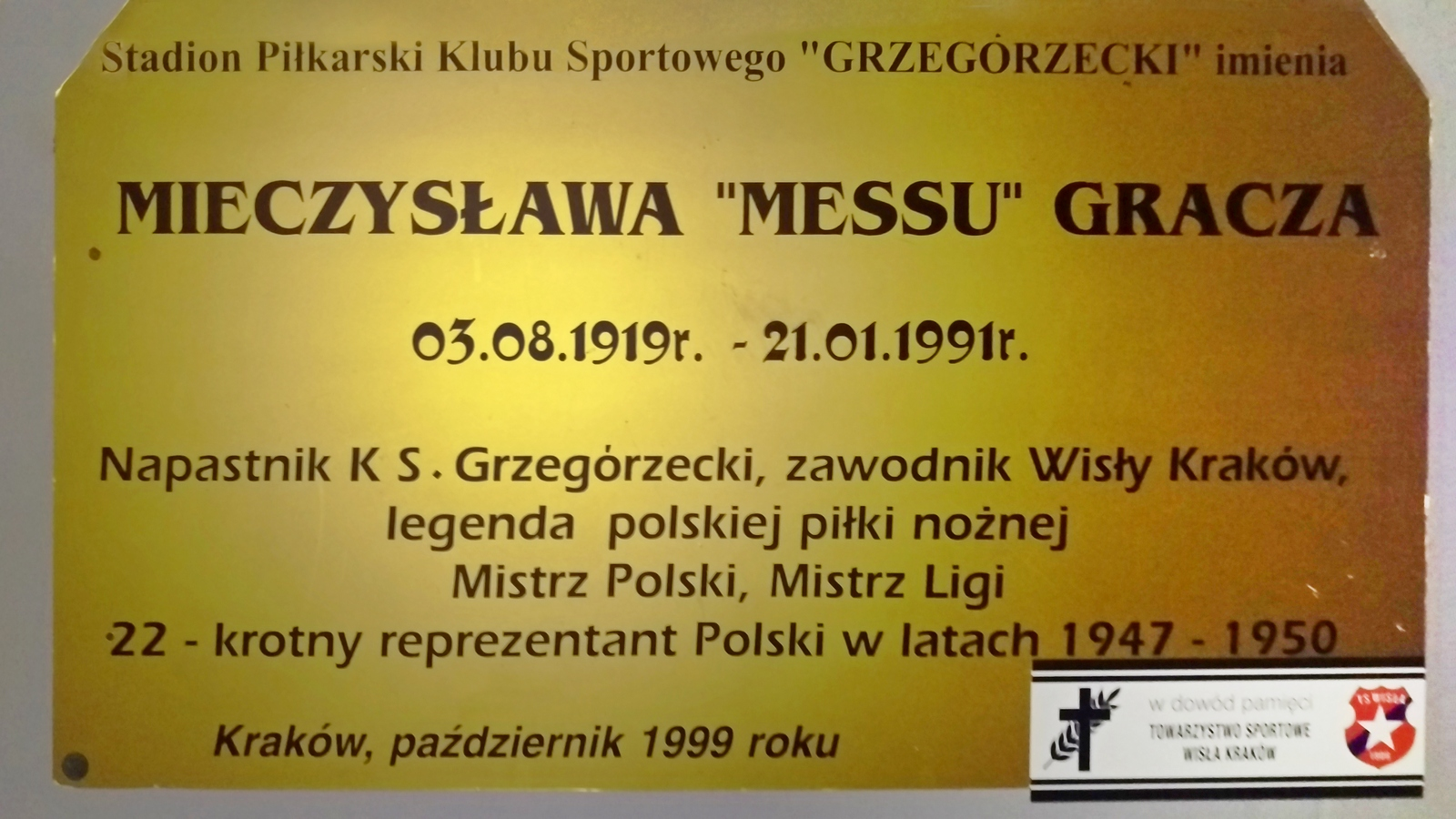 A commemorative plaque unveiled on the occasion of named the stadium of Grzegórzecki sport club in Krakow after the name of famous Polish footbal player, Mieczysław Gracz, at the 75th anniversary of the club.